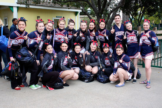 Lillian Osborne Cheer Team